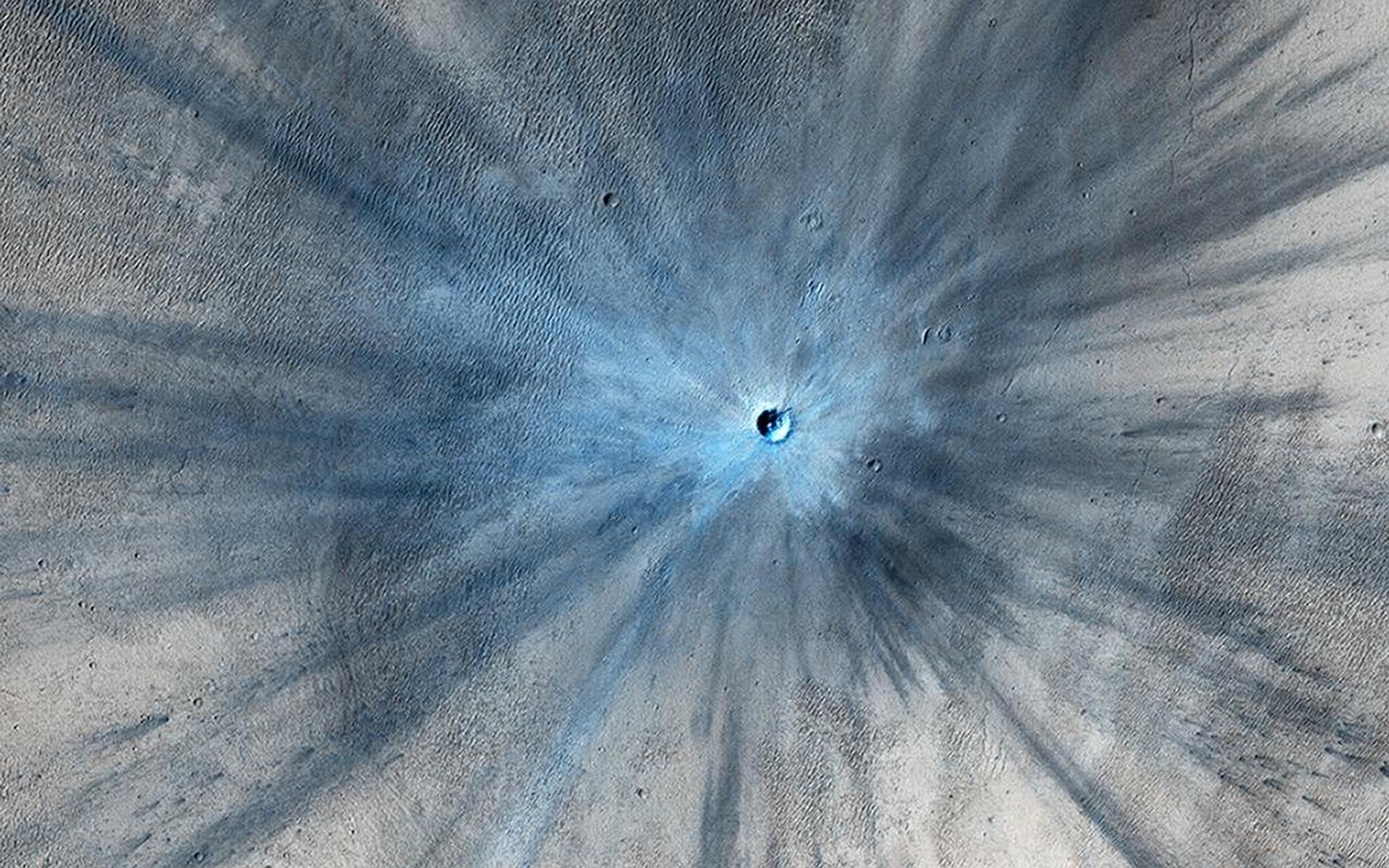 A Spectacular New Martian Impact Crater A dramatic, fresh impact crater dominates this image taken by the High Resolution Imaging Science Experiment (HiRISE) camera on NASA’s Mars Reconnaissance Orbiter on Nov. 19, 2013. Researchers used HiRISE to examine this site because the orbiter’s Context Camera had revealed a change in appearance here between observations in July 2010 and May 2012, bracketing the formation of the crater between those observations. The crater spans approximately 100 feet (30 meters) in diameter and is surrounded by a large, rayed blast zone. Because the terrain where the crater formed is dusty, the fresh crater appears blue in the enhanced color of the image, due to removal of the reddish dust in that area. Debris tossed outward during the formation of the crater is called ejecta. In examining ejecta’s distribution, scientists can learn more about the impact event. The explosion that excavated this crater threw ejecta as far as 9.3 miles (15 kilometers). The crater is at 3.7 degrees north latitude, 53.4 degrees east longitude on Mars. Before-and-after imaging that brackets appearance dates of fresh craters on Mars has indicated that impacts producing craters at least 12.8 feet (3.9 meters) in diameter occur at a rate exceeding 200 per year globally. Few of the scars are as dramatic in appearance as this one.